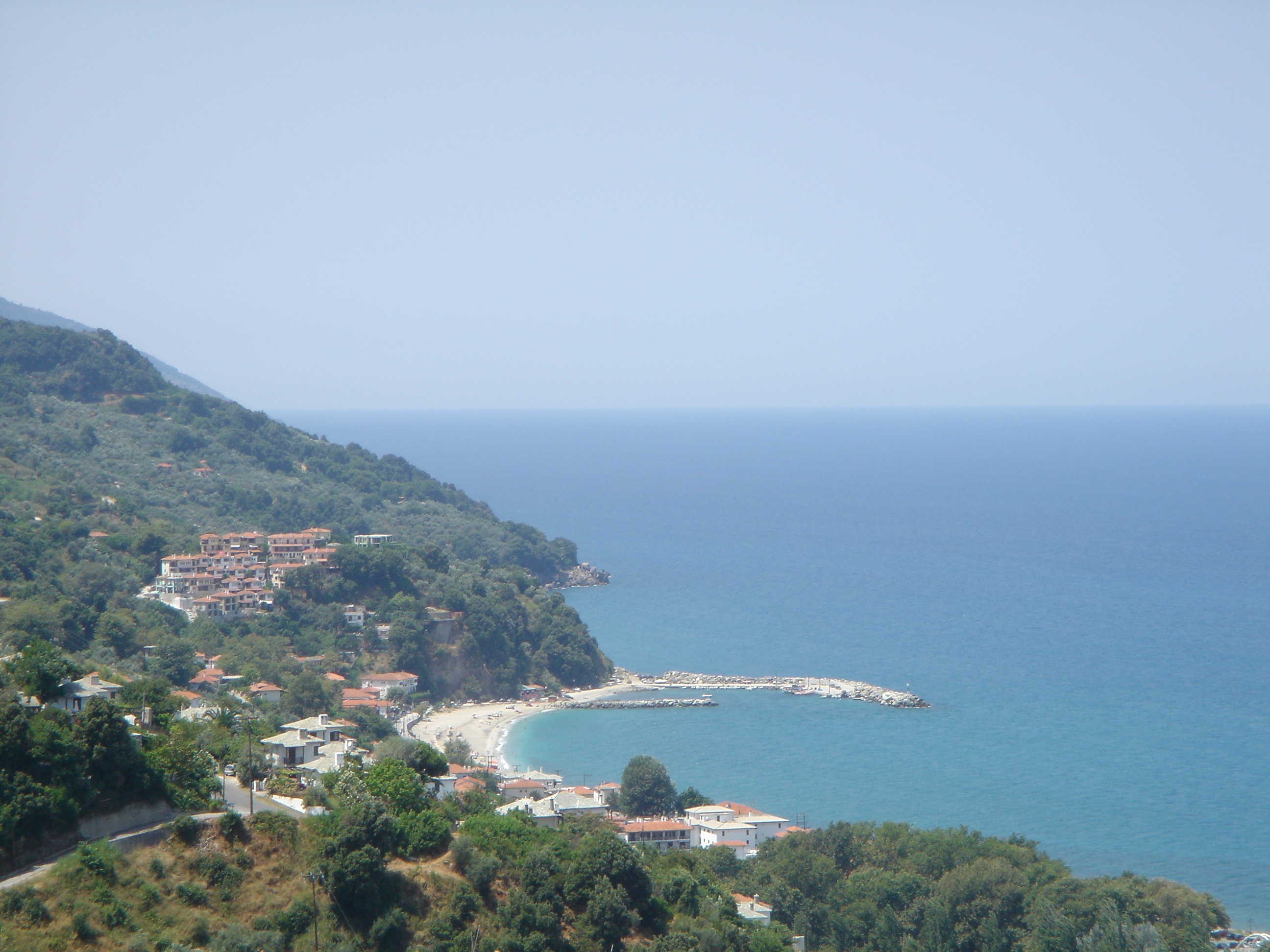 Beach of Agios Ioannis, Pilion, Greece